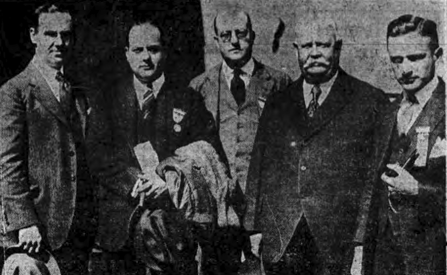 Delegates from the 18th Assembly District to the New York State Democratic Convention in Syracuse in 1922